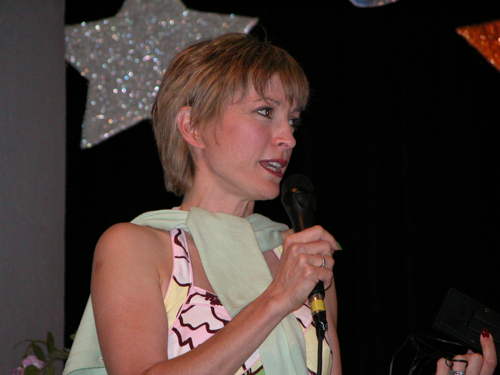 Nana Visitor at STICCon XVIII in Bellaria, Italy on May 30, 2004